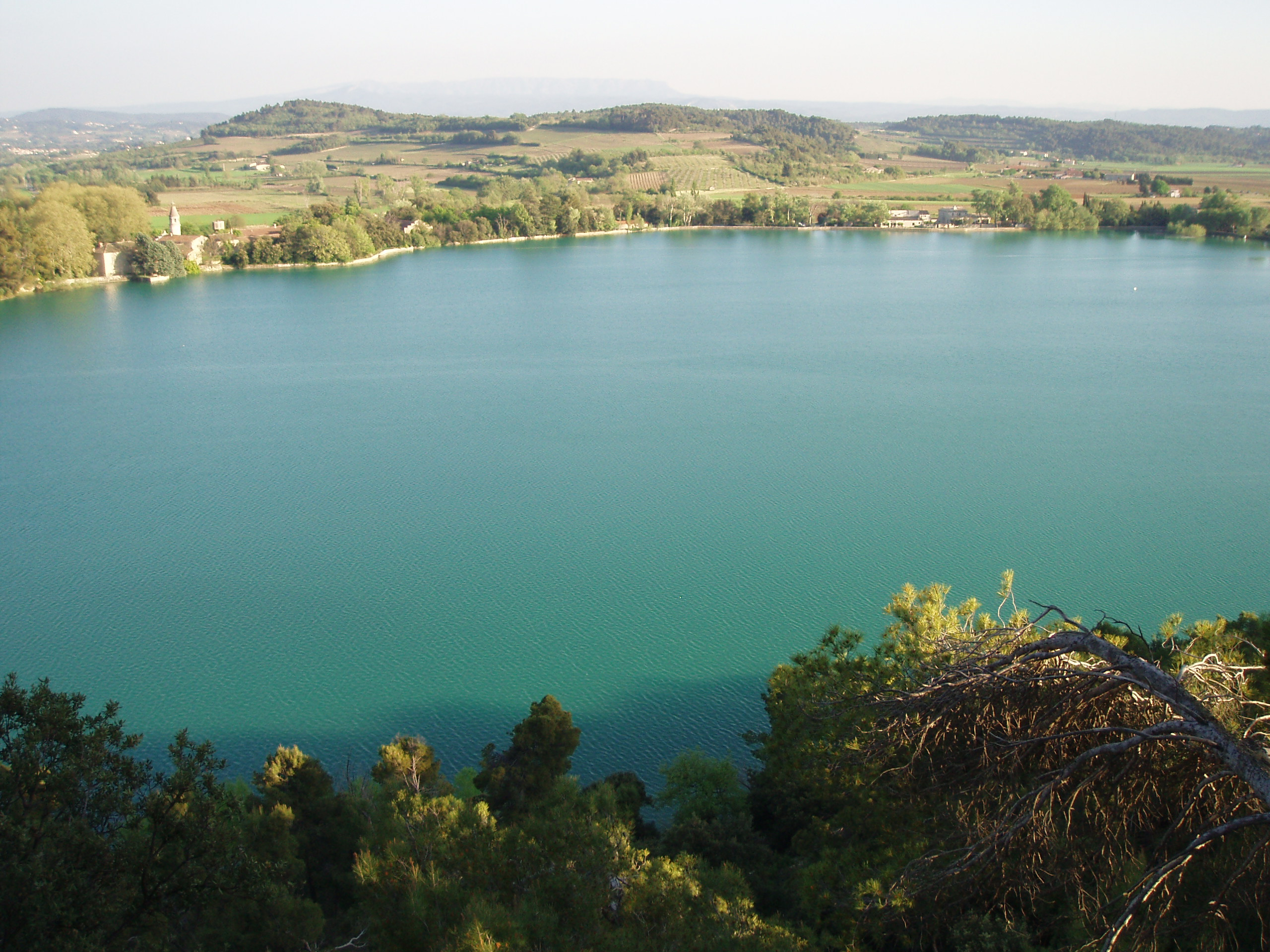 Étang de la Bonde, Vaucluse, France, seen from the north.